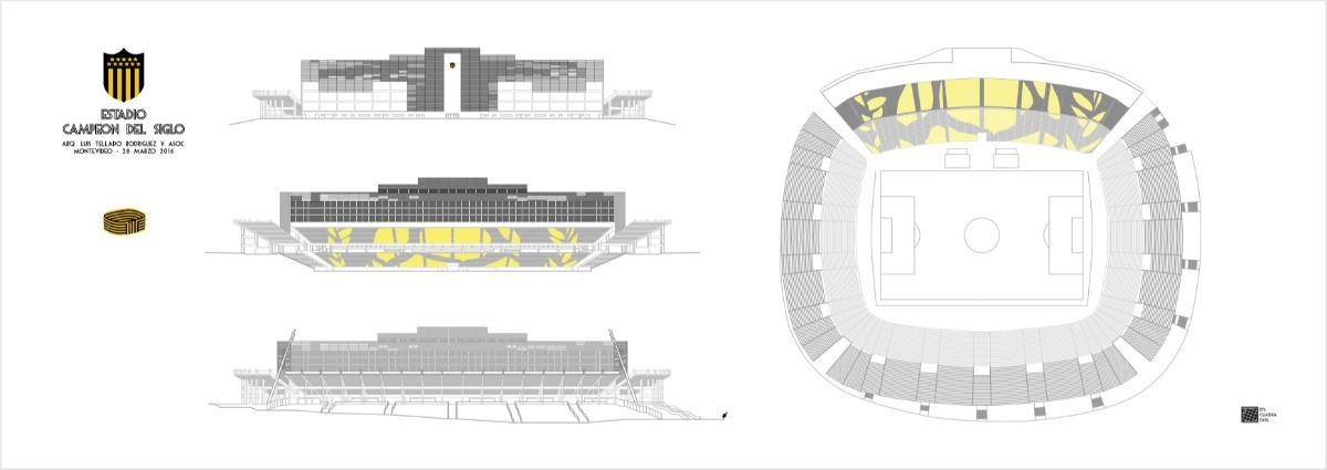 estadio plano